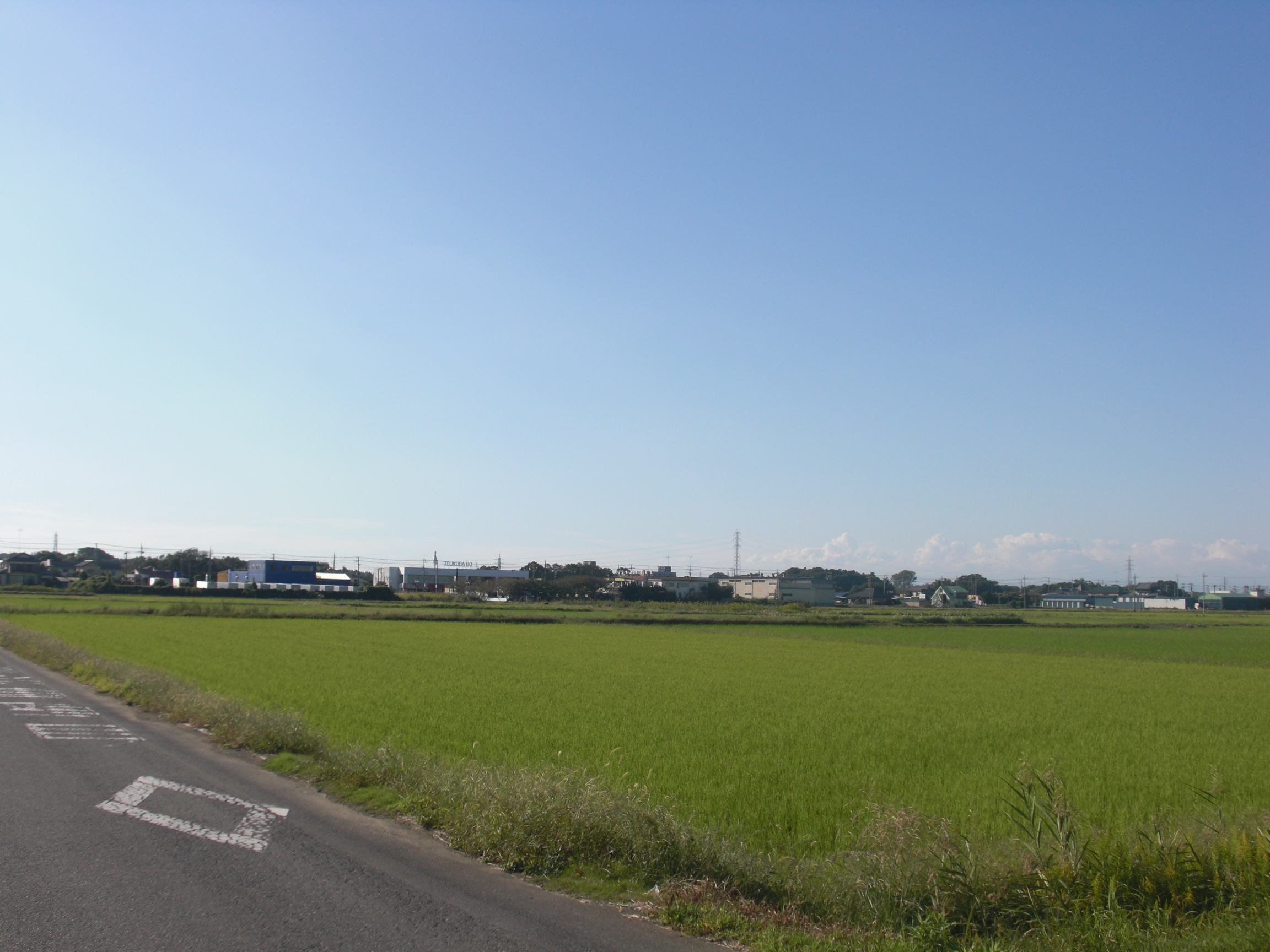 This is a landscape of Tsukuba enclave area, Tsukuba city, Ibaraki prefecture, Japan.